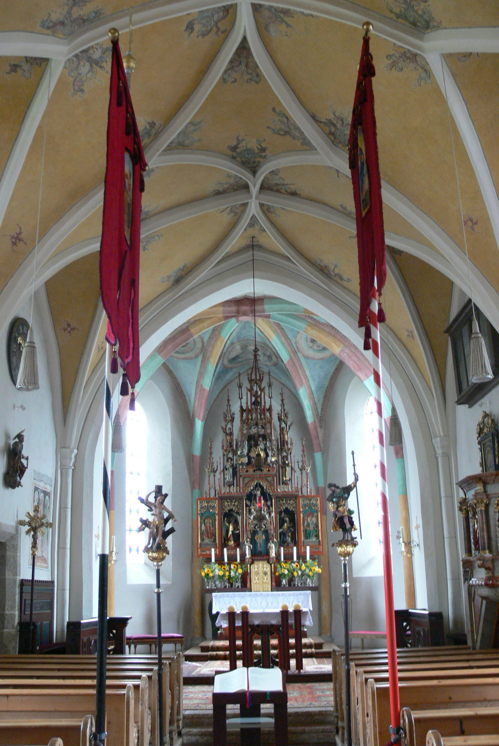 Lofer parish church - Interior.